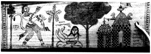 Sarathi Madala Patnaik, Adhyatma Ramayana[*] (NYPL, 1891). Hanumana and Kalanemi, f. 93v.